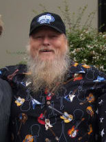 Photo of Mickey Jones promoting a charity in San Diego